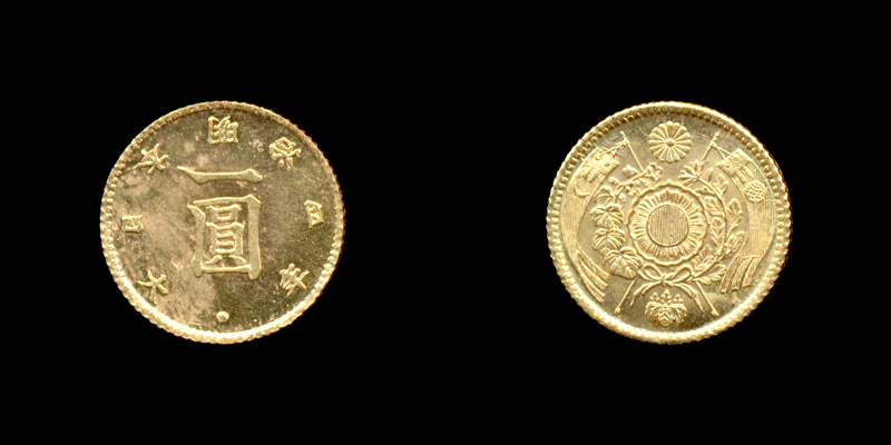 1yen-M4